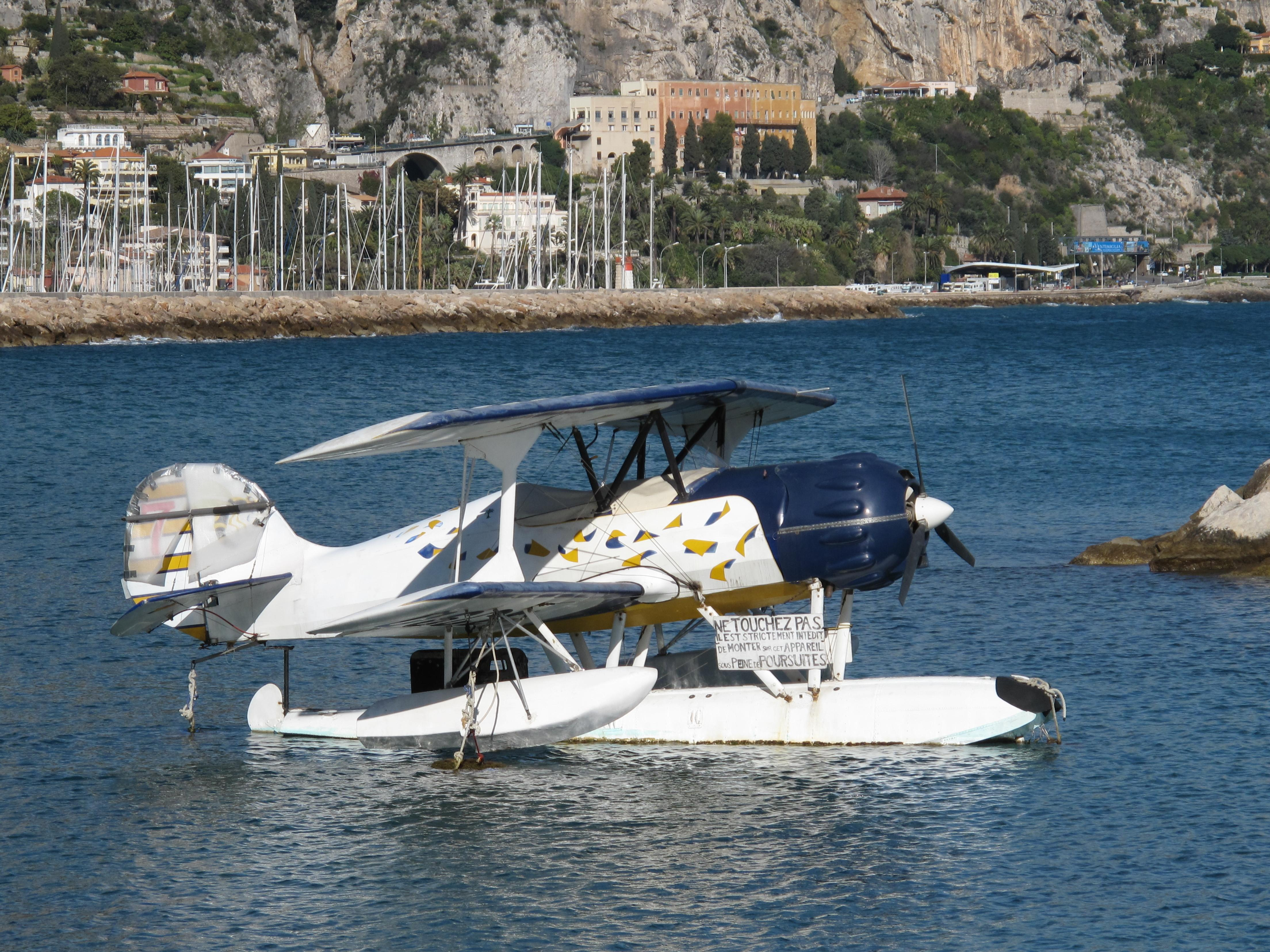 Light seaplane in the port of Garavan in Menton (Alpes-Maritimes, France). Looking to the old customs and the italian border.